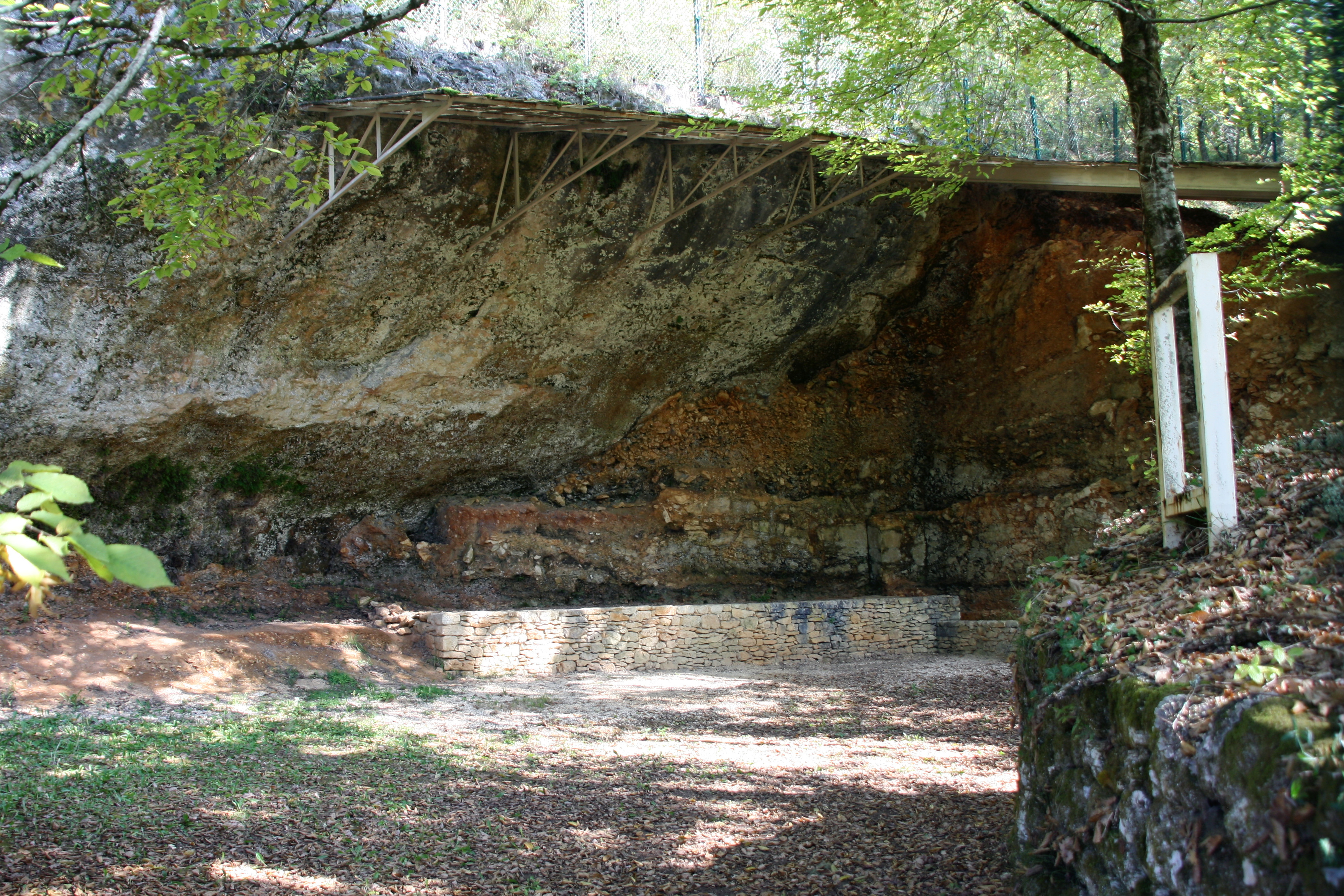 The great rockshelter of La Ferrassie, Savignac-de-Miremont, Dordogne, France. This site was occupied by Neanderthals, near 35,000 years BP.